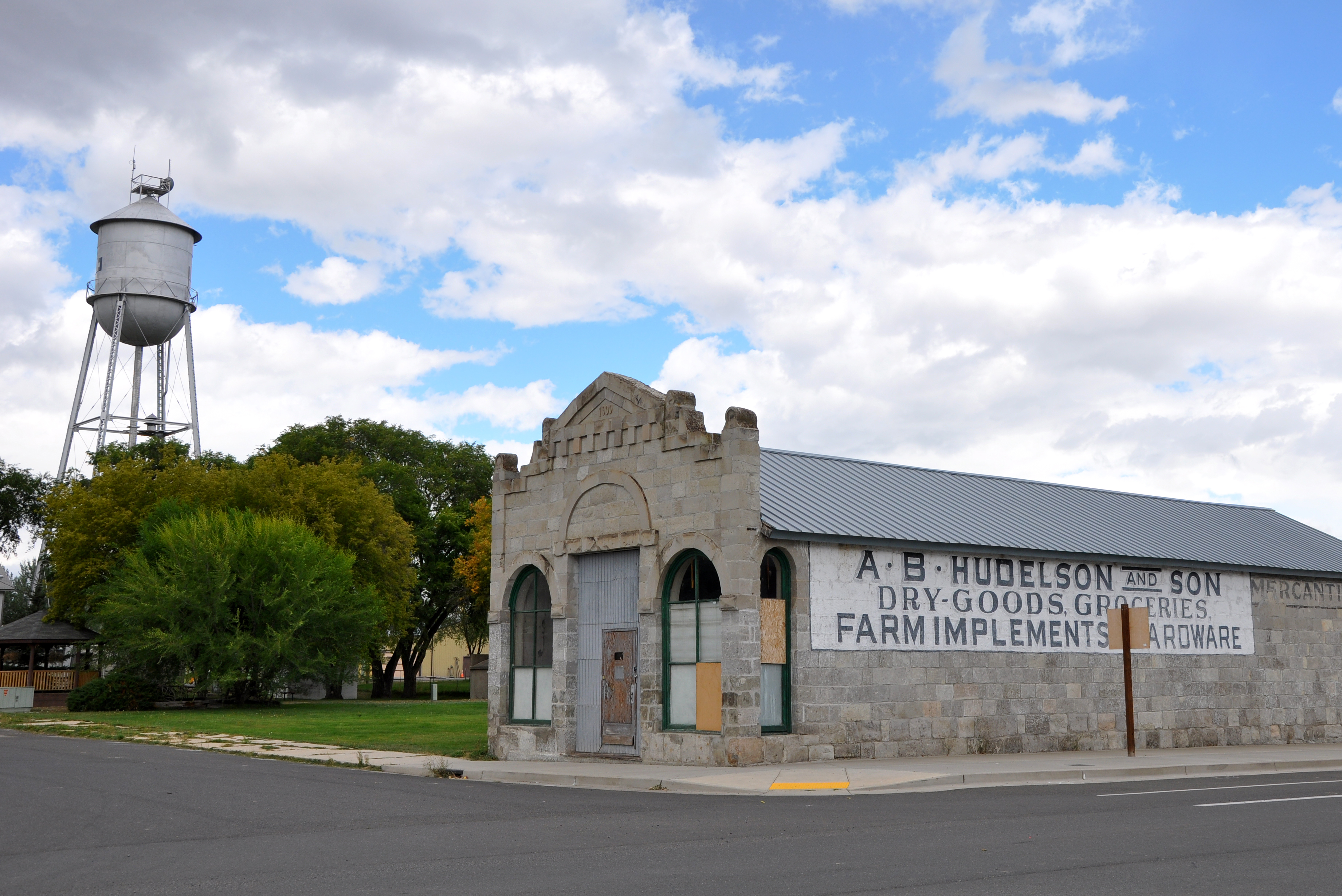 Farm implement building in downtown North Powder, Oregon, in the United States